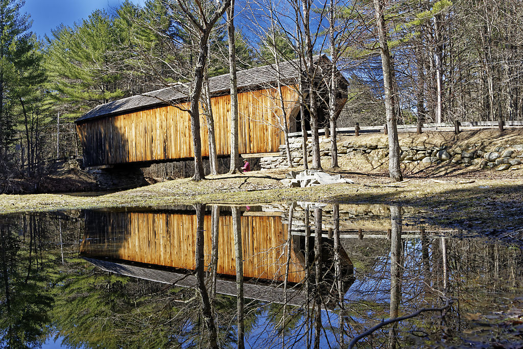 Melt water provides a nice reflection.